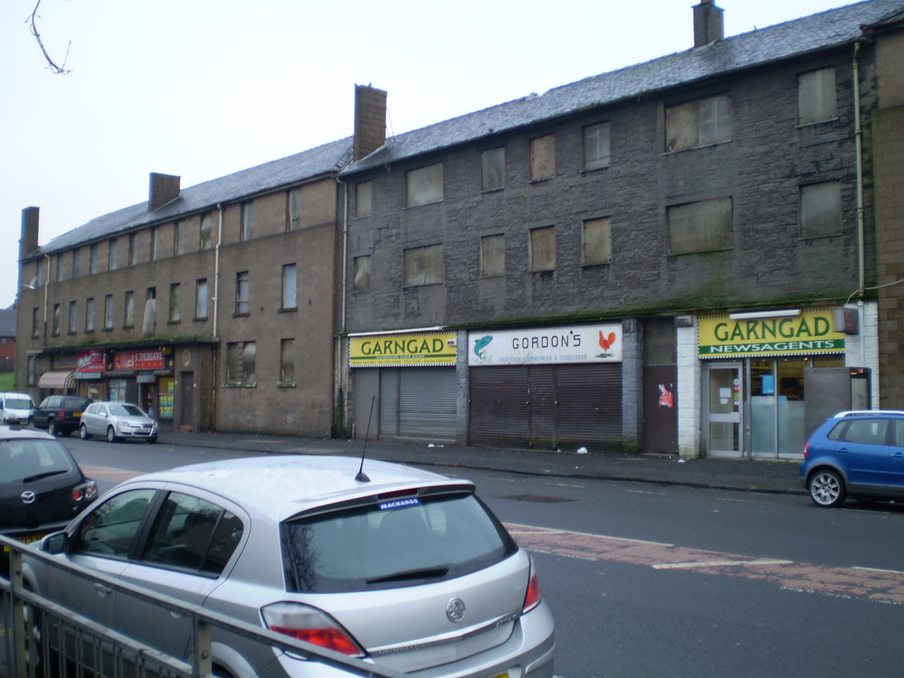 Royston Road in Glasgow, Scotland